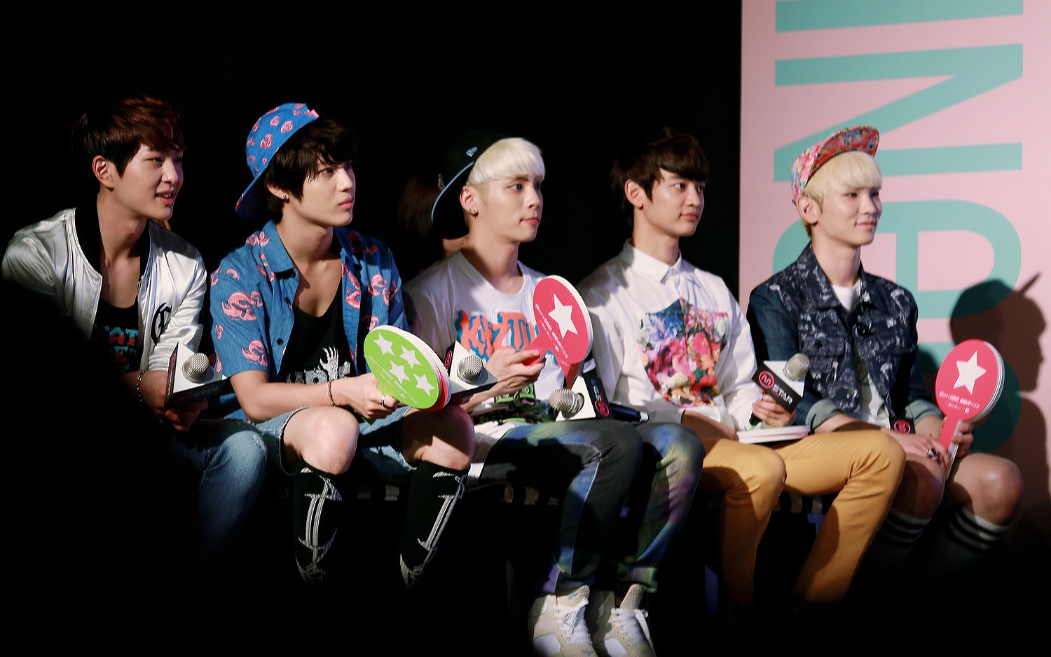 Shinee at the MStar in Taiwan on August 30, 2013.